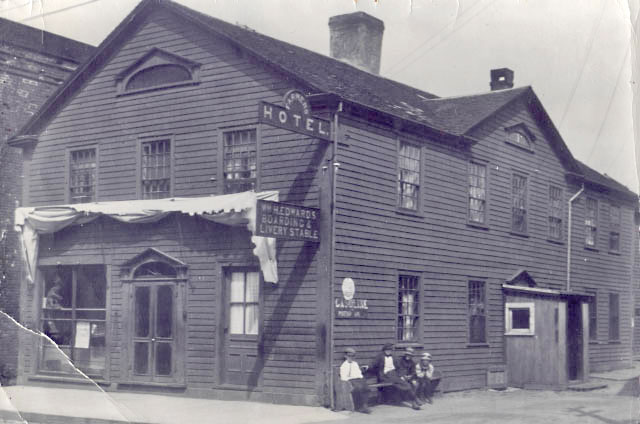 The Sinclair Inn in 1930, then known as the Farmers’ Hotel